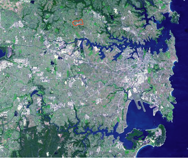 NASA satellite image of Sydney, Australia, cropped and modified to show borders of Eastwood; Original NASA image number: PIA03498